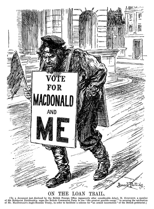 Cartoon by John Bernard Partridge for Punch, created in the wake of the publication of the Zinoviev letter